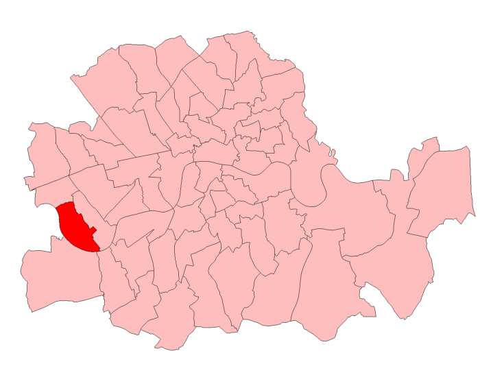 A map of Fulham West constituency within the London County Council area, as it existed from 1918 to 1949.